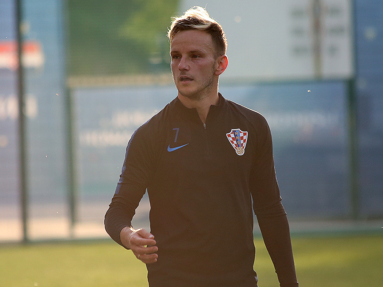 Ivan Rakitic training with Croatia at 2018 FIFA World Cup